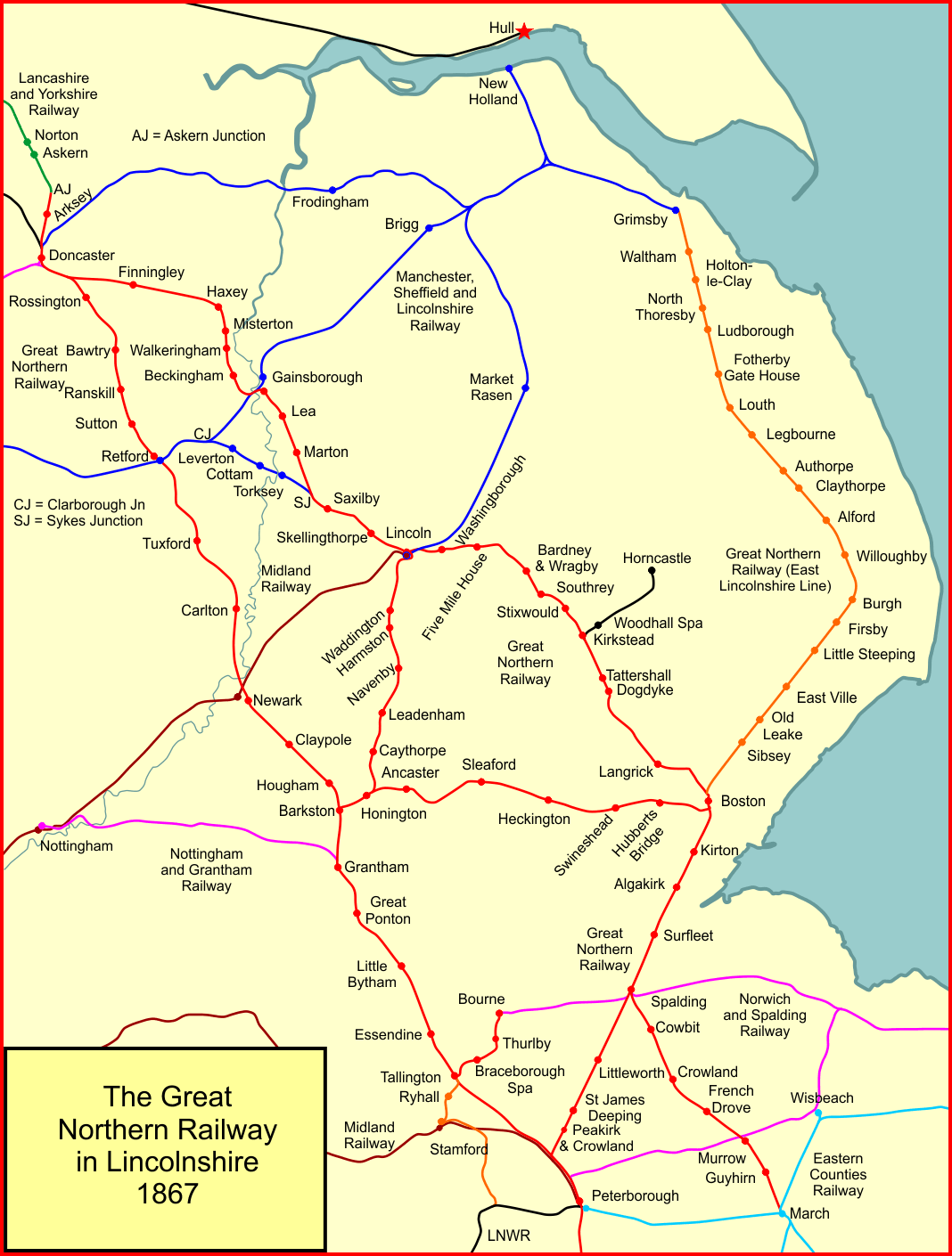 System map of the Great Northern Railway in Lincolnshire, England, in 1867